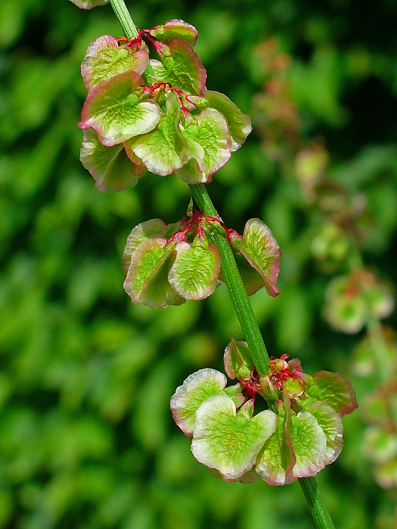 Rumex acetosa, Polygonaceae, Common Sorrel, Garden Sorrel, fruits. Karlsruhe, Germany.